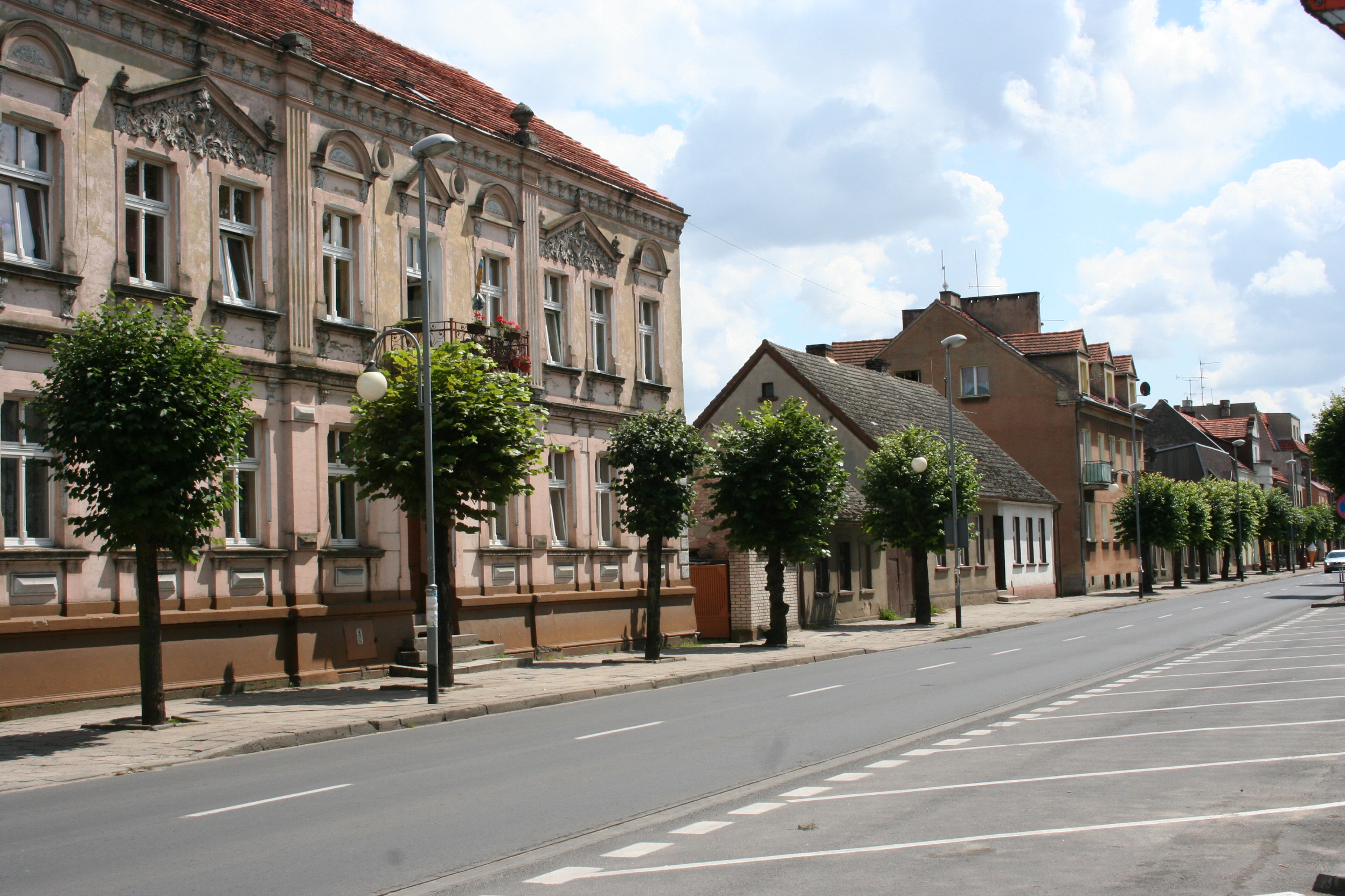 Poznańska street in Sieraków